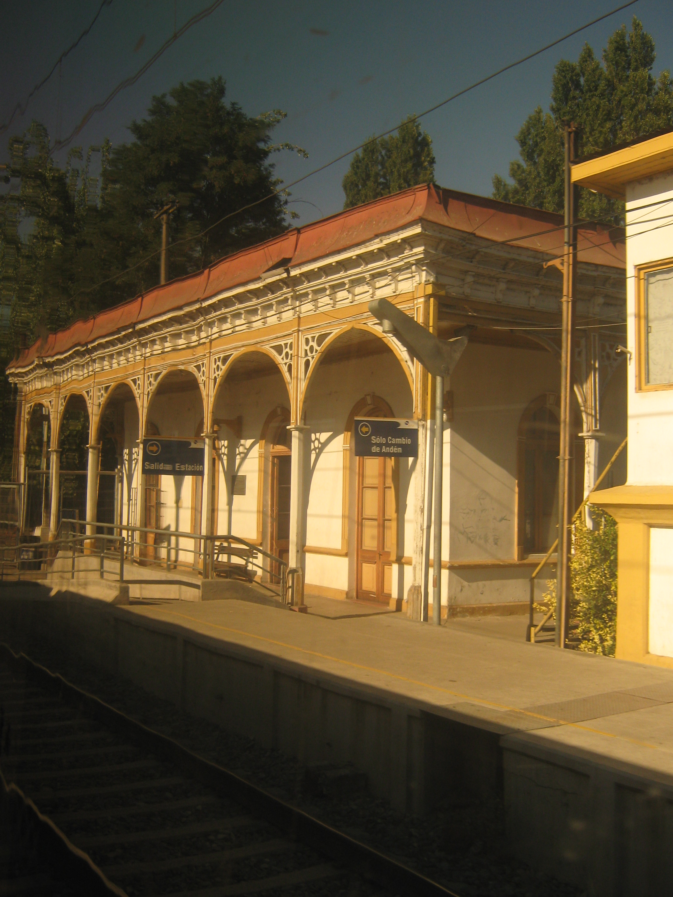 San Francisco de Mostazal Region O Higgins